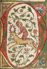 bookside of a bible, in Initial D a deer riding wild man